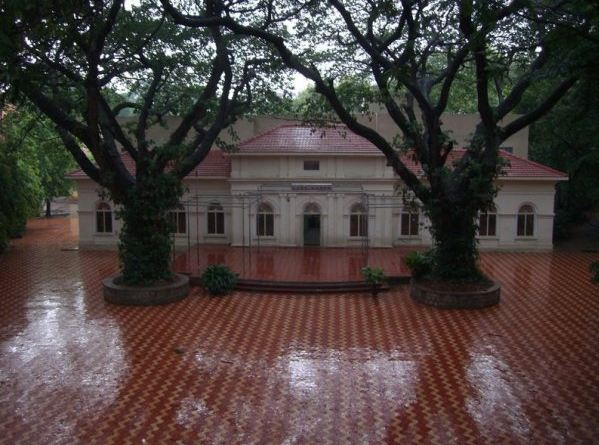 sasa asd